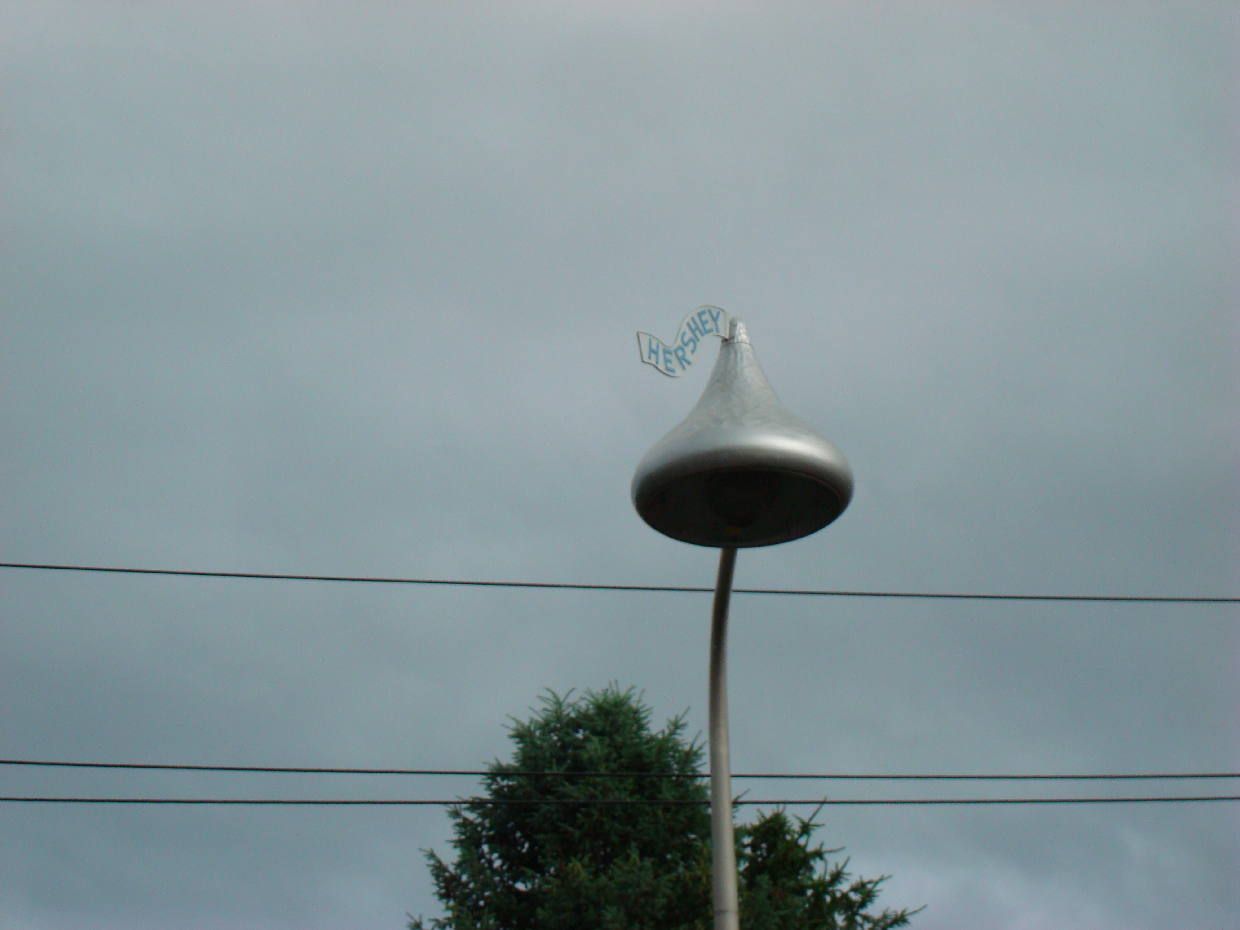 Chocolate Kiss streetlight on Chocolate Avenue wrapped and with the Hershey name tag. Some of the Kiss streetlights are brown (unwrapped) and some are silver (wrapped). The wrapped ones have the nametag. Hershey, Pennsylvania, USA